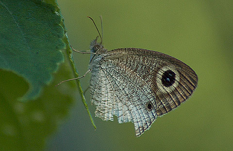 White Fourring underside photographed in Mangarai, Anaikatty, Coimbatore, Tamilnadu, India.